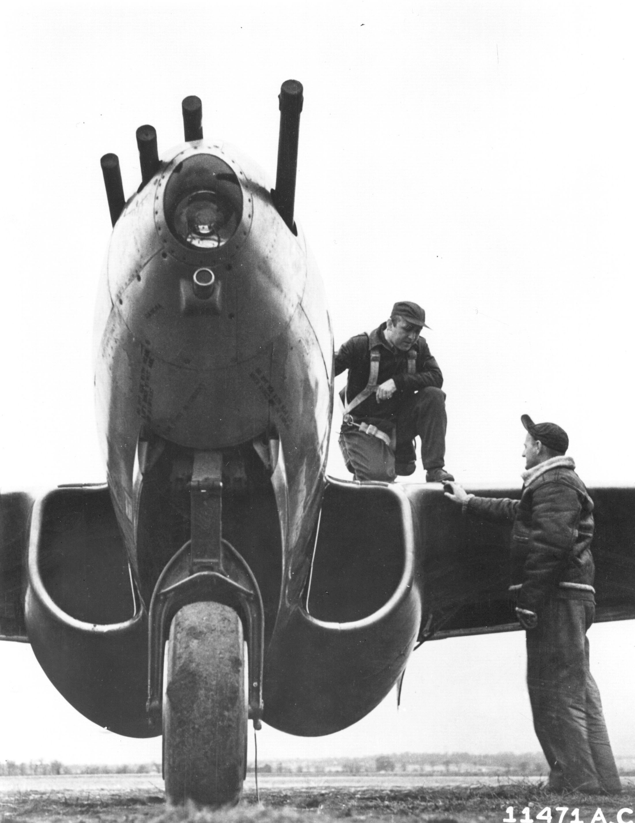 Development of the P-59 "Airacomet", America's first jet-propelled airplane, was ordered personally by General H. H. Arnold on September 4, 1941. The project was conducted under the utmost secrecy, with Bell building the airplane and General Electric the engine. The first P-59 was completed in mid-1942 and on October 1, 1942, it made its initial flight at Muroc Dry Lake (now Edwards Air Force Base), California. One year later, the airplane was ordered into production, to be powered by I-14 and I-16 engines, improved versions of the original I-A. Bell produced 66 P-59s. Although the airplane's performance was not spectacular and it never got into combat, the P-59 provided training for AAF personnel and invaluable data for subsequent development of higher performance jet airplanes.